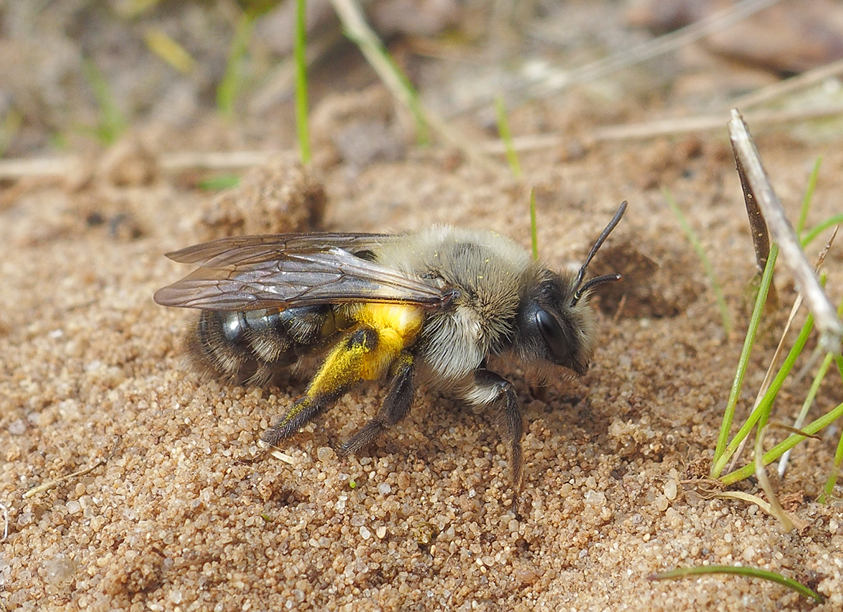 Grey-backed mining bee (Andrena vaga) in The Netherlands